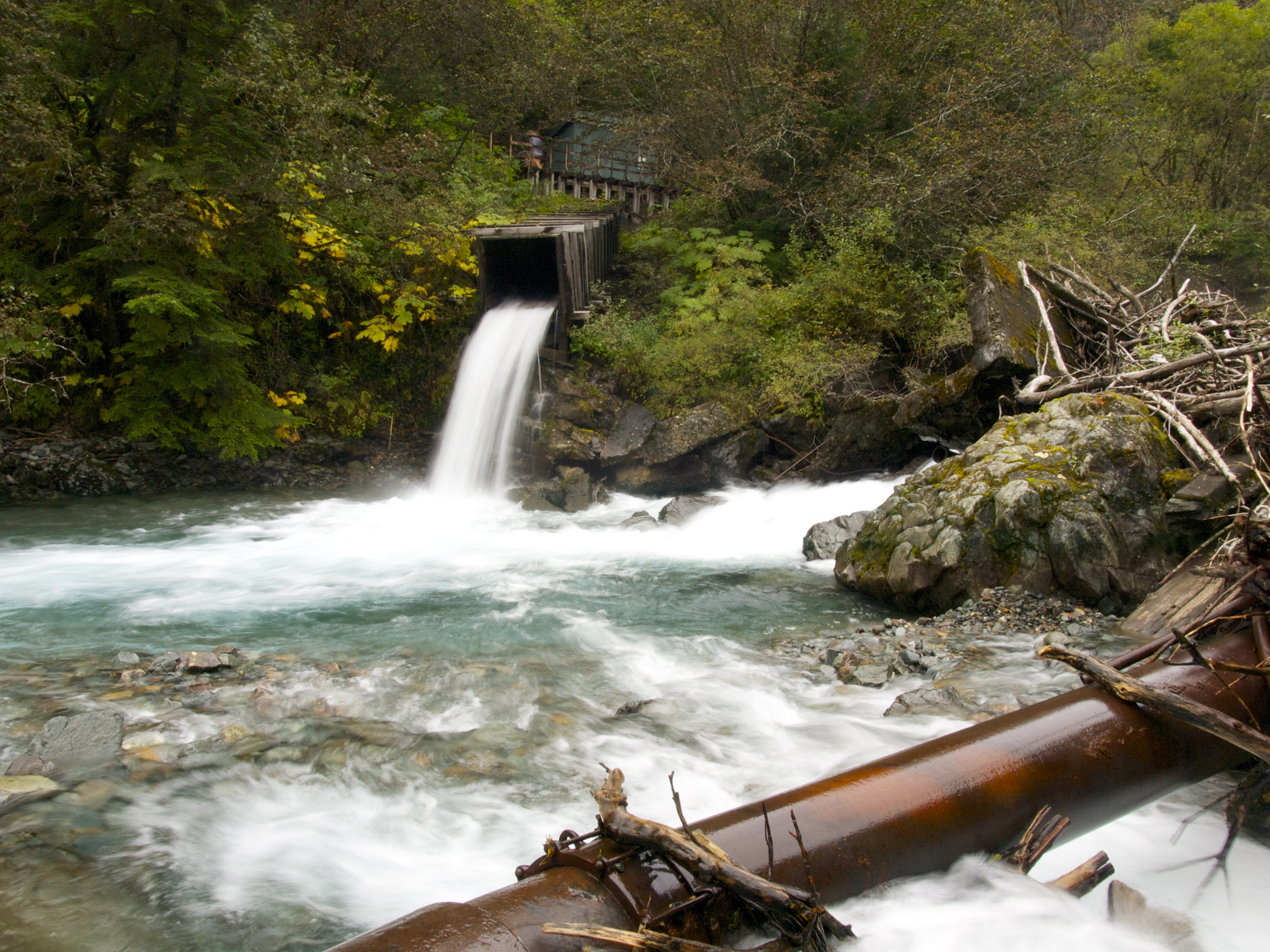 Time exposure while in Gold Creek 2